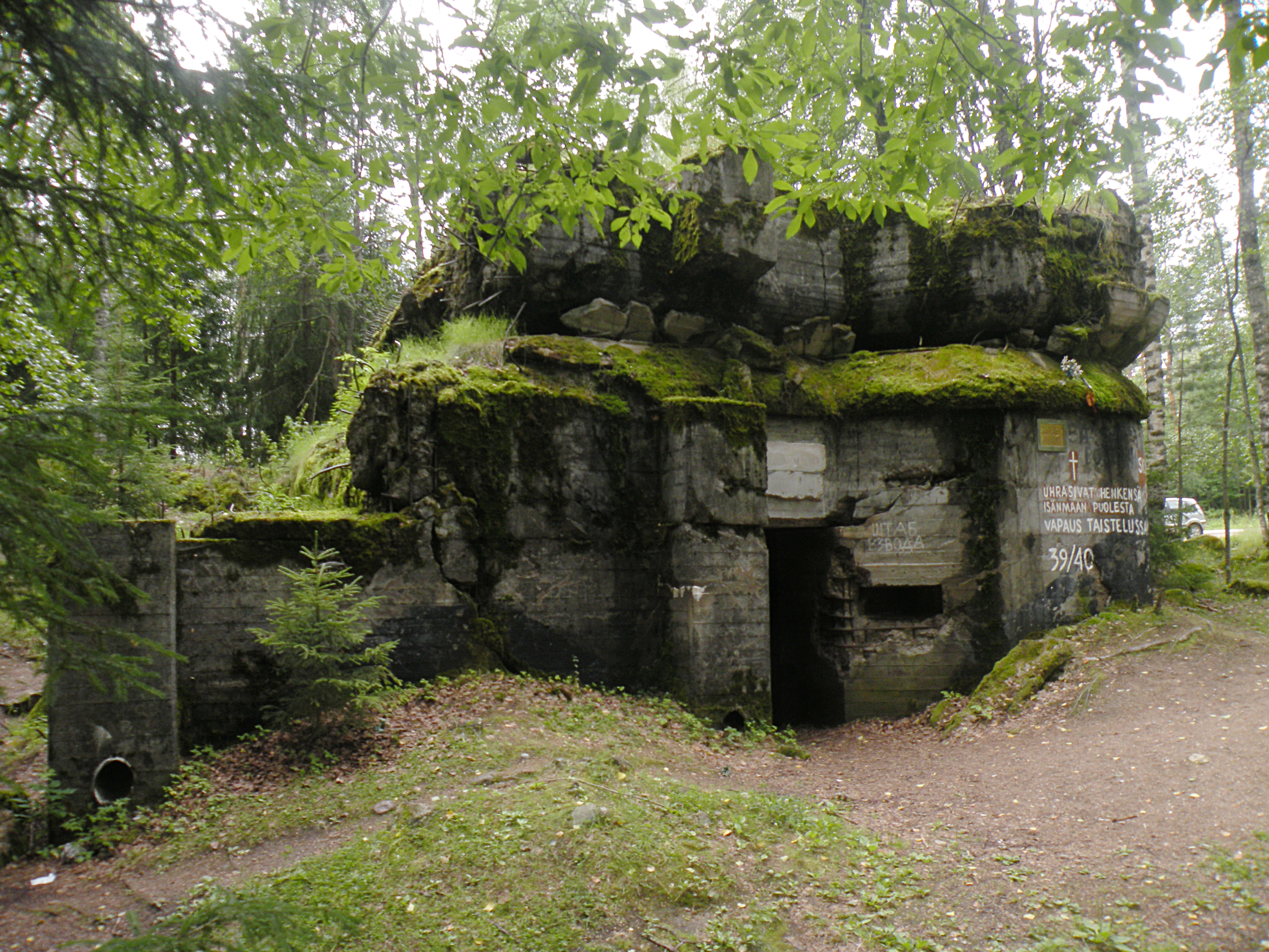 View_of_Pillbox Sk16_(frontal)